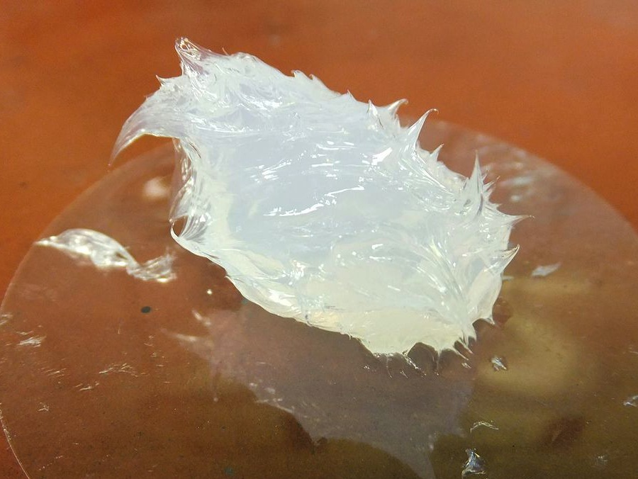 Liquid silicone. Cropped version of image File:Liquid-silicon-rubber.jpg